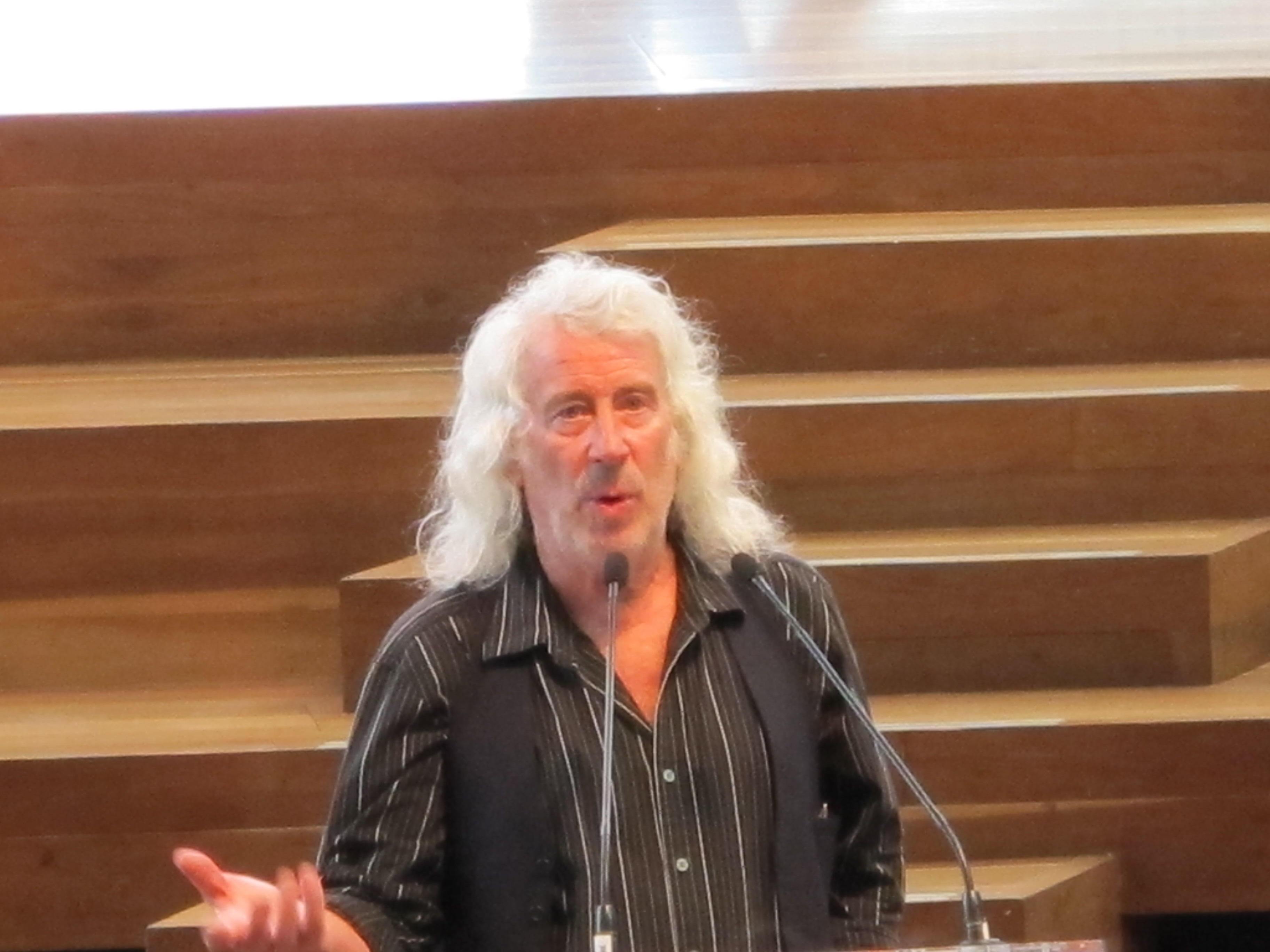 Michael Reynolds, world renowned renegade architect, at BMW Edge